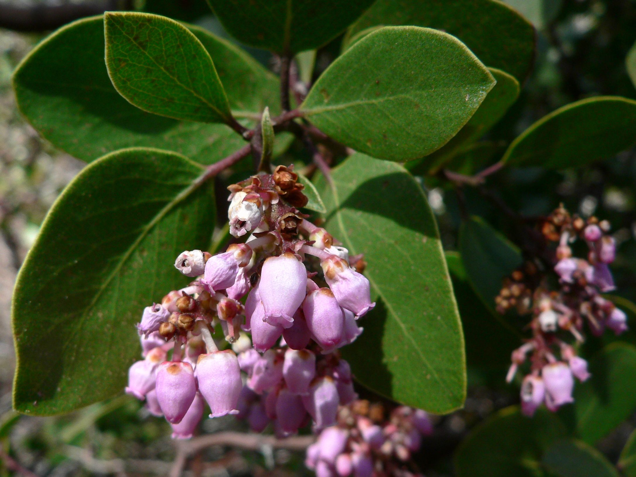 Green Manzanita foliage and flowers (Arctostaphylos patula), on the Clothespin Tree Trail, Mariposa Grove, Yosemite National Park, at 6,220 feet (1,900 m) elevation